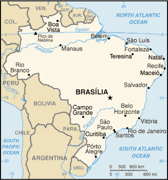 A map of Brazil, showing major cities.